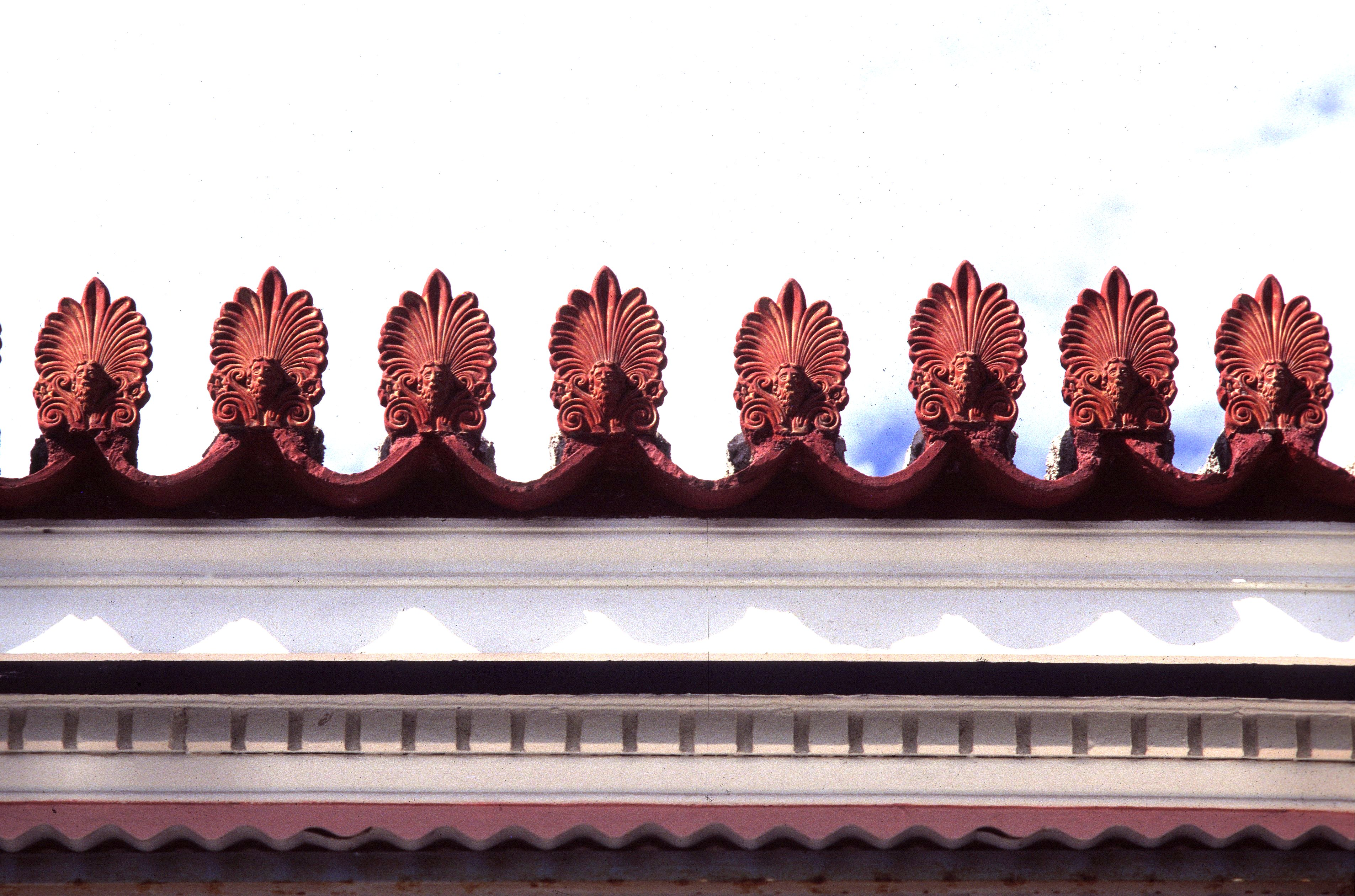 Akroterion-Athen